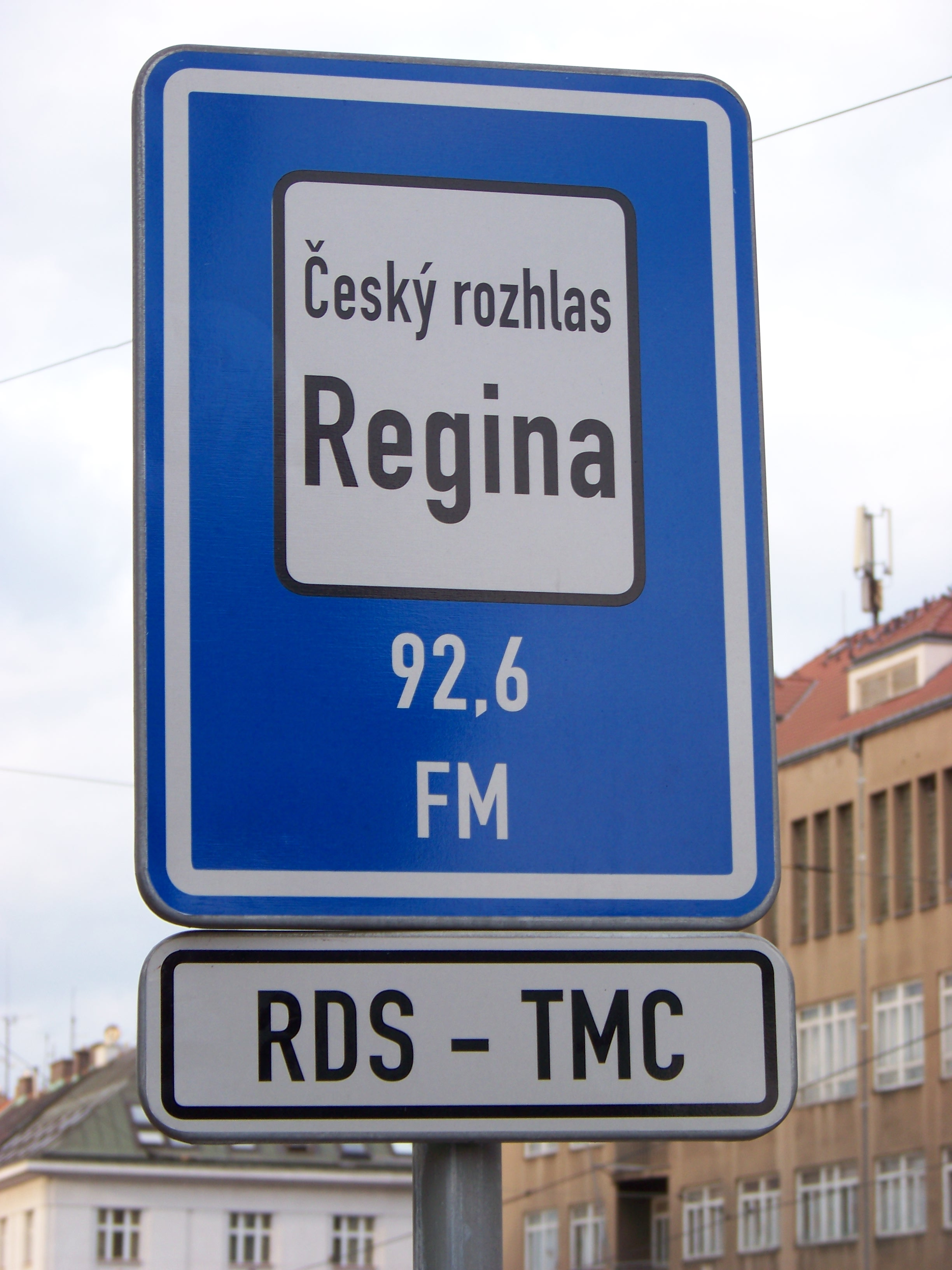 Prague-Dejvice, the Czech Republic. Svatovítská street, a radio station sign. - Google Maps - Google Earth